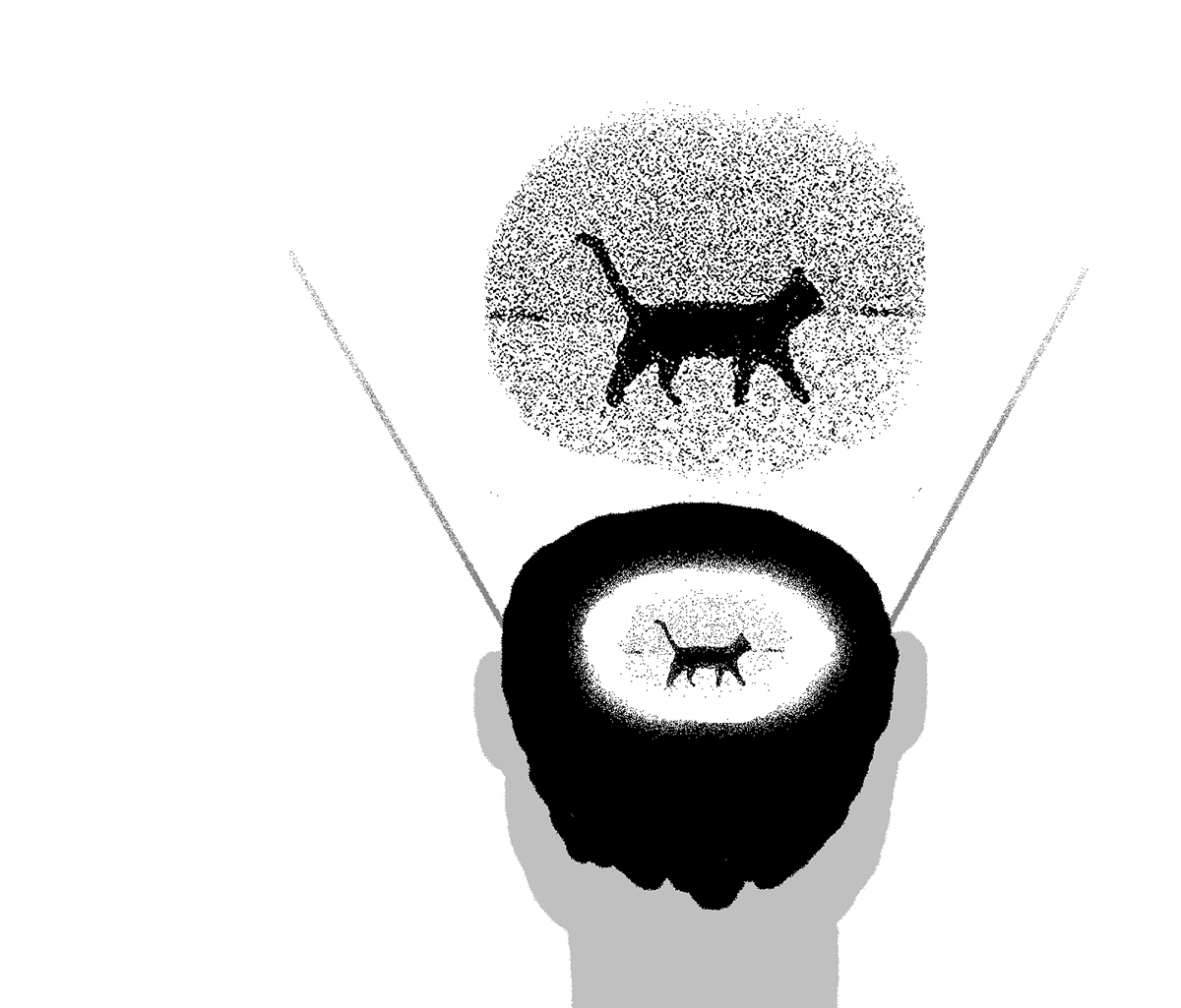 Deja vu illustration